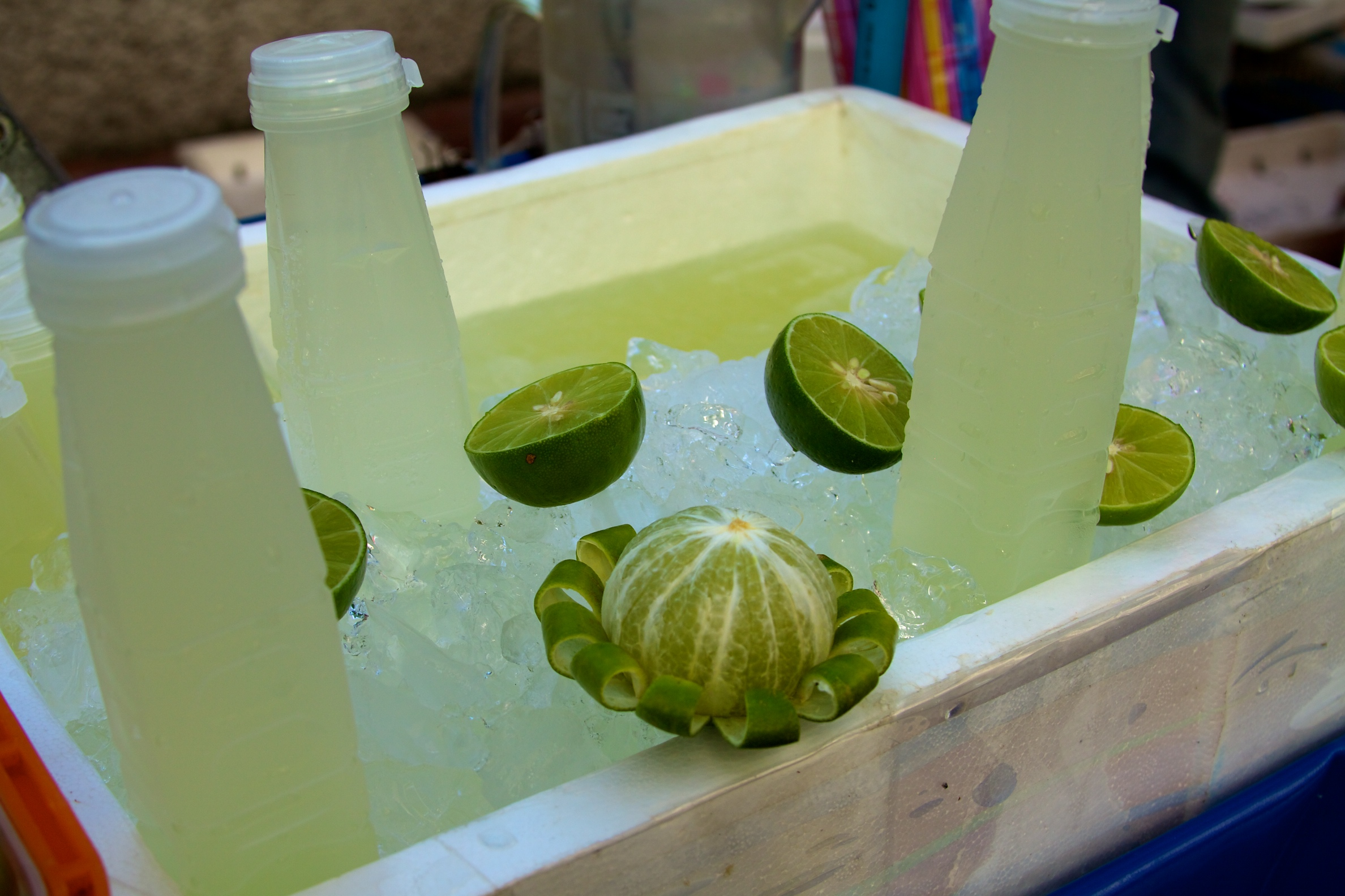 Just what's needed on a hot, sweaty summer day is some ice-chilled lime juice. I love Bangkok.